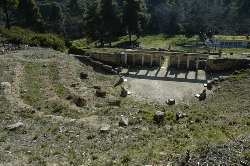 J. M. Harrington, personal digital image